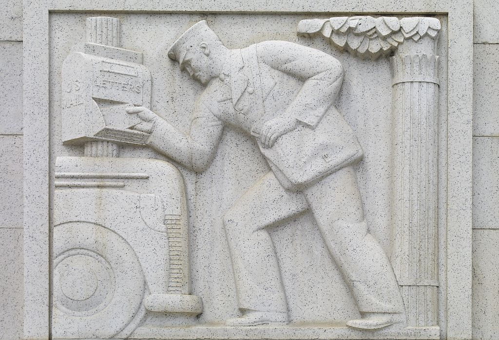 Art Deco bas relief on former Phila post office, now the Nix Federal Bldg, depicting mail delivery